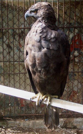 Black eagle, Ictinaetus malayensis. Carita, Banten, west Java, Indonesia